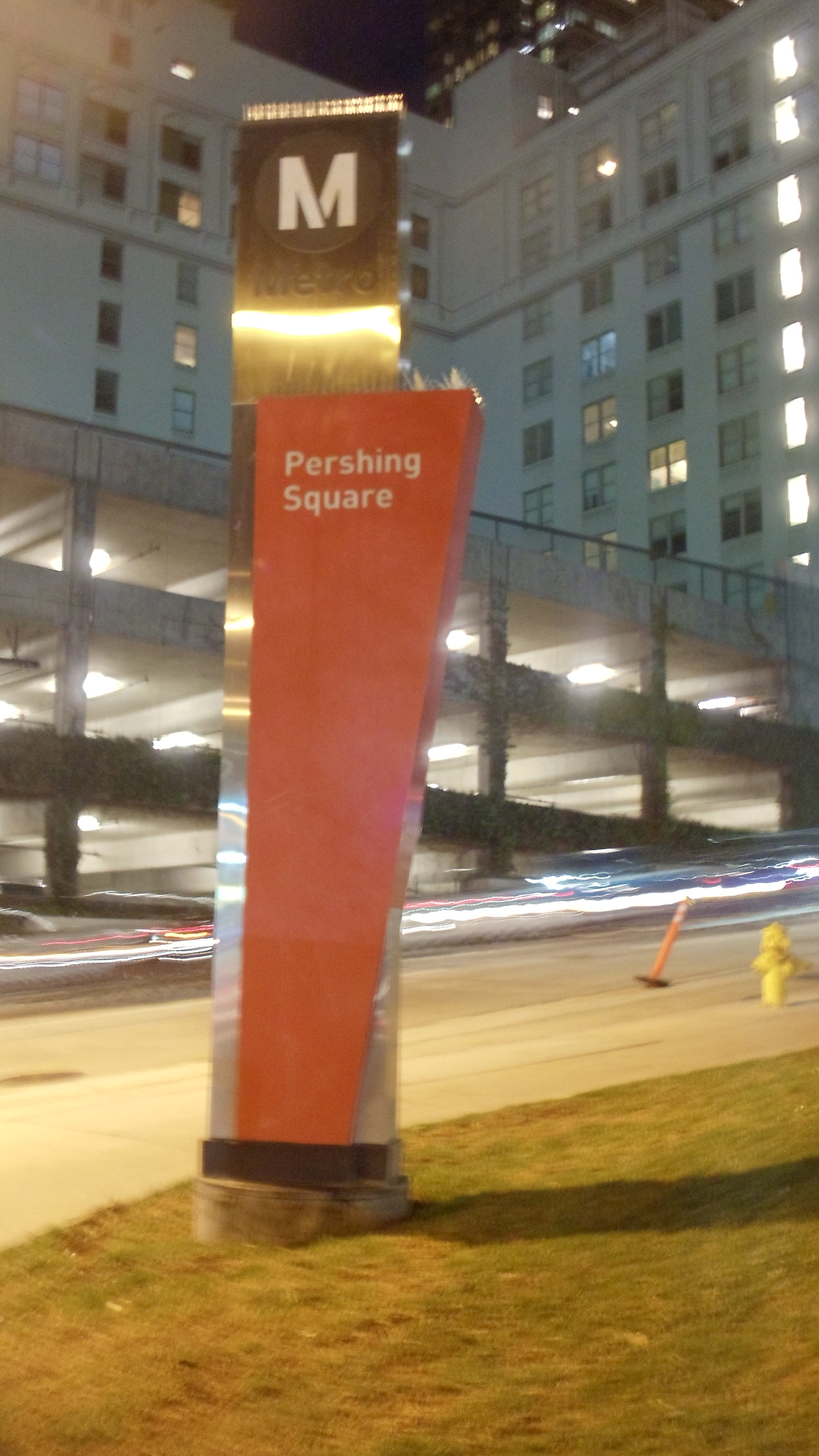 Current metro pylon sign at Pershing Square Metro Red & Purple Lines Station.